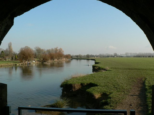 River Thames from under Ha'penny Bridge, Lechlade, Gloucestershire. The footpath along the south bank passes through a small arch under Ha'penny Bridge